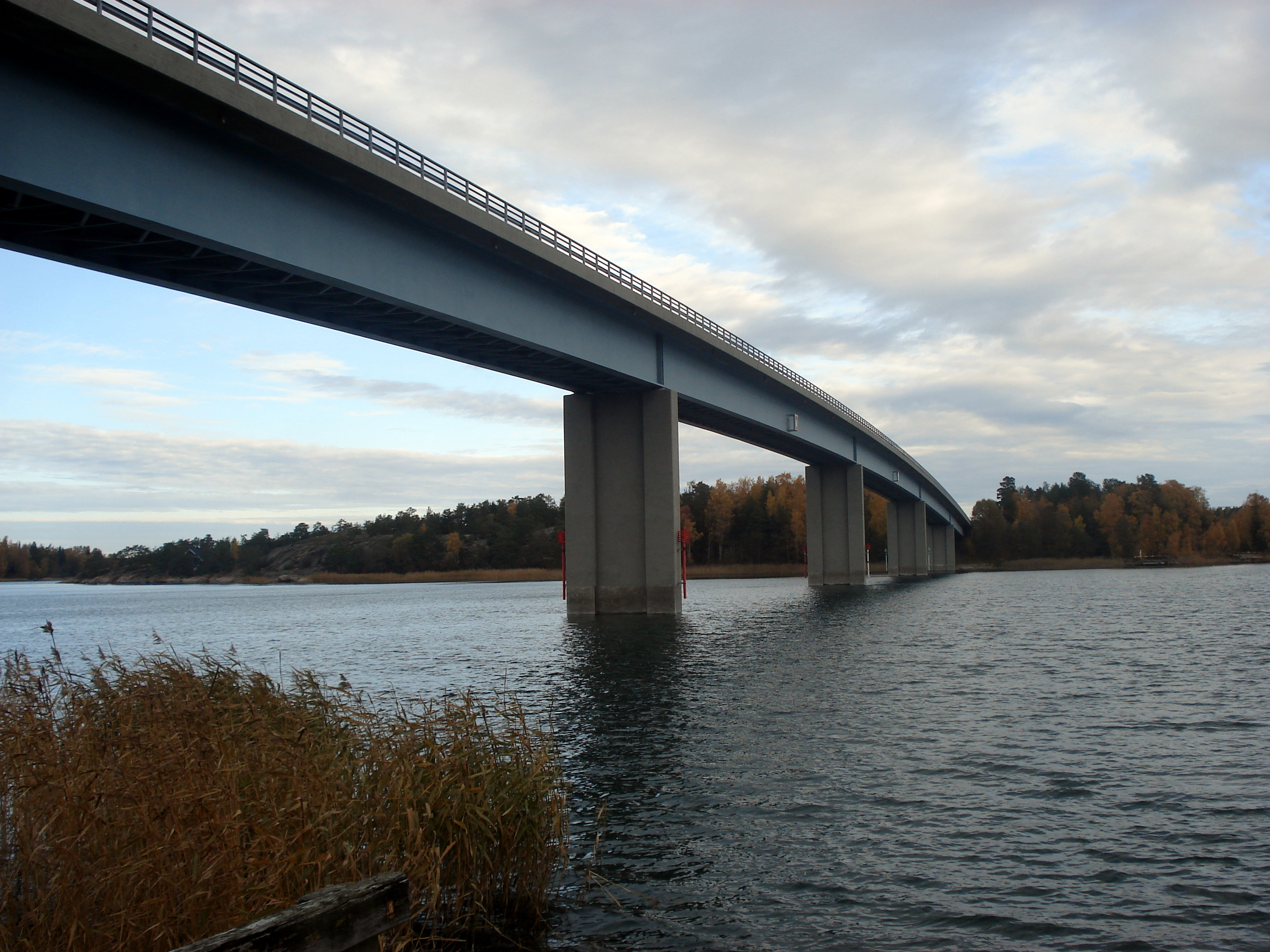 The Kaitainen Bridge is located in Taivassalo, Finland.